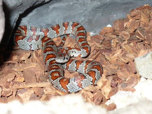 Lampropeltis mexicana mexicana - Mexican Kingsnake from private collection of mkey